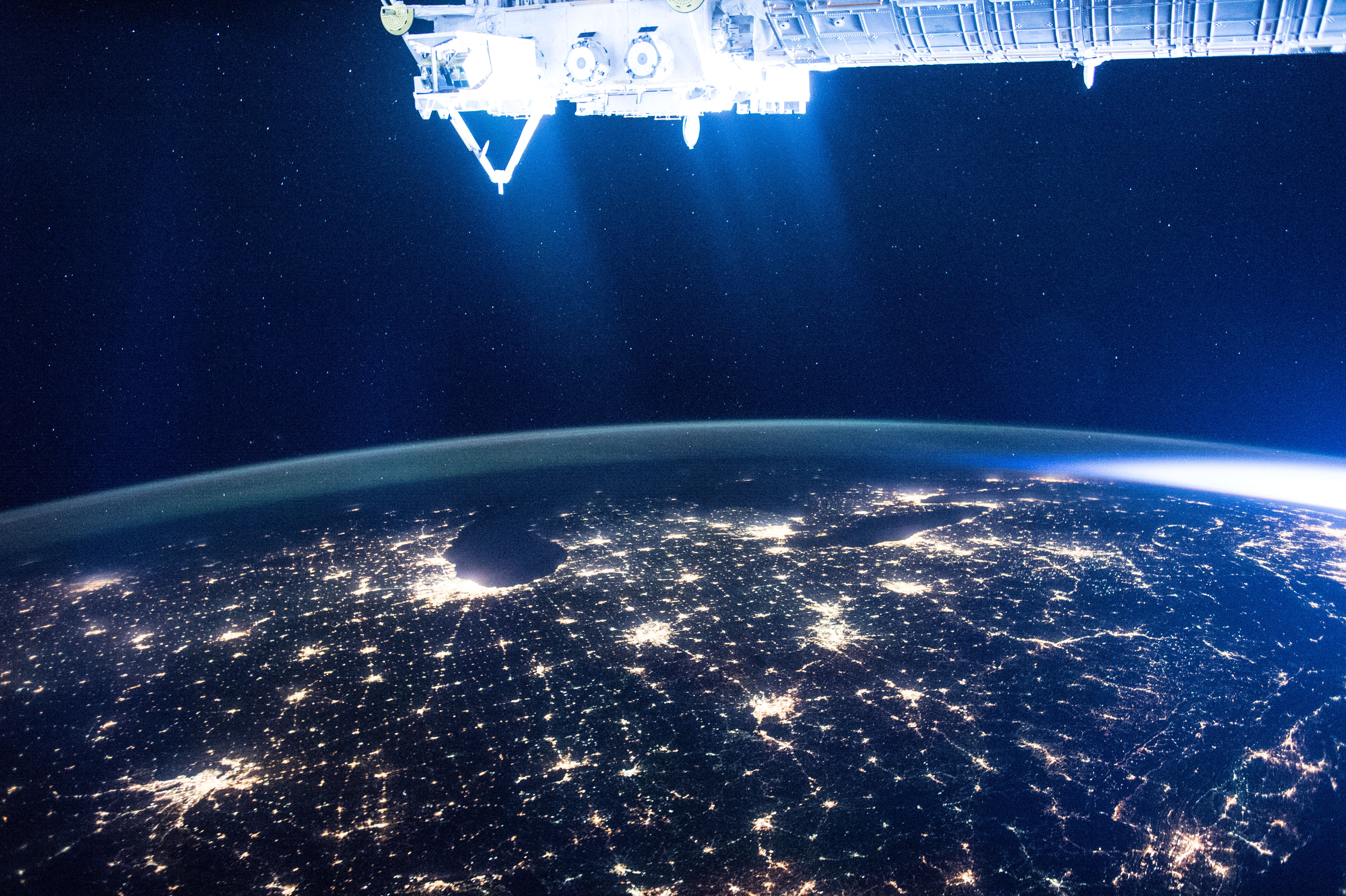 The glittering lights of the American Midwest illuminate the Earth in this captivating image taken by the International Space Station Expedition 46 crew on Jan. 5, 2016. The picture, which was taken while the station was flying above Alabama, shows numerous major cities, including the major city of Chicago (middle-left) situated on the Lake Michigan coastline. Also in view are three of the American Great Lakes, including Lake Michigan (left), Lake Huron (middle) and Lake Erie (right).